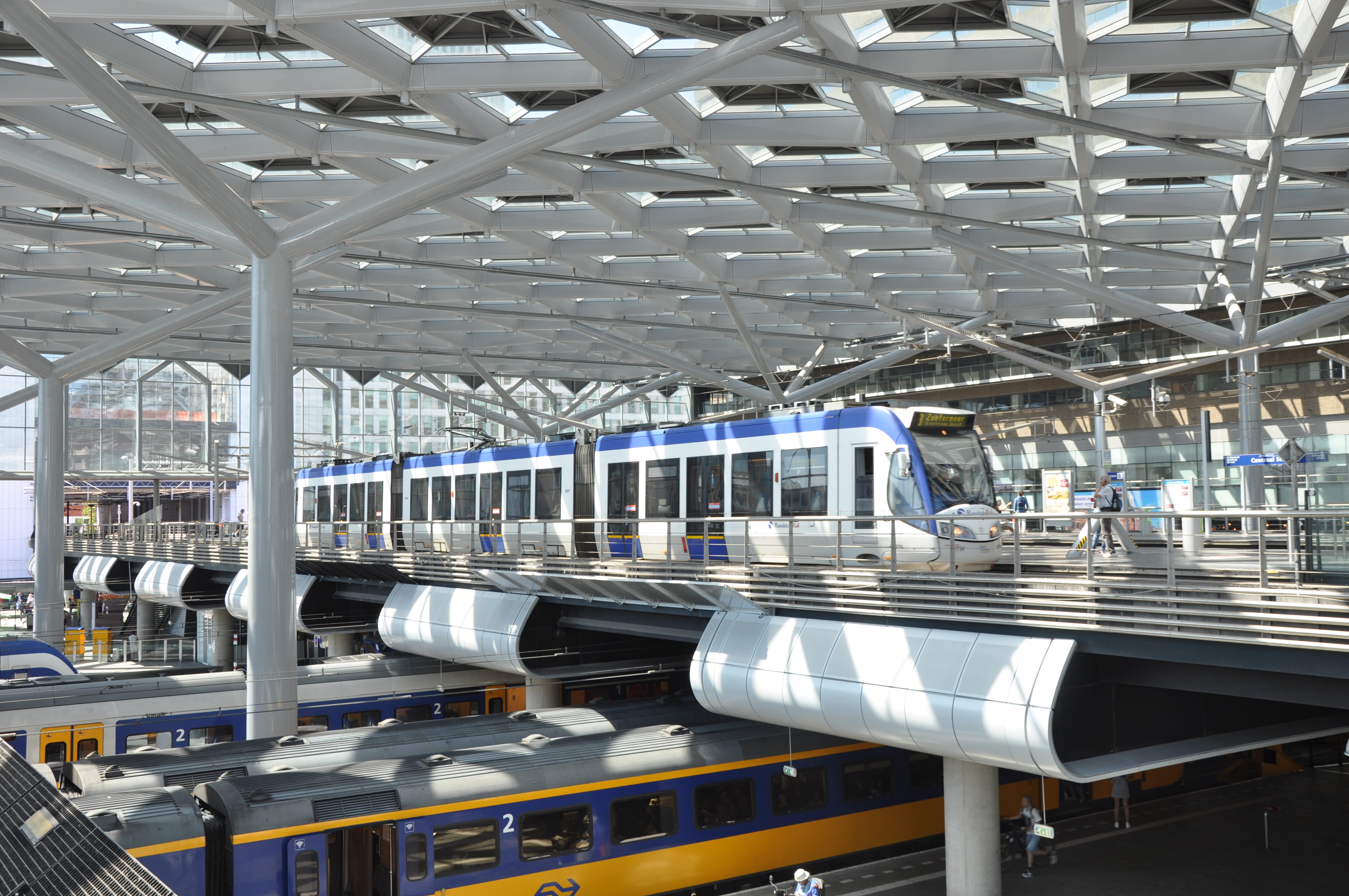 Den Haag Central station tramplatform, 2018